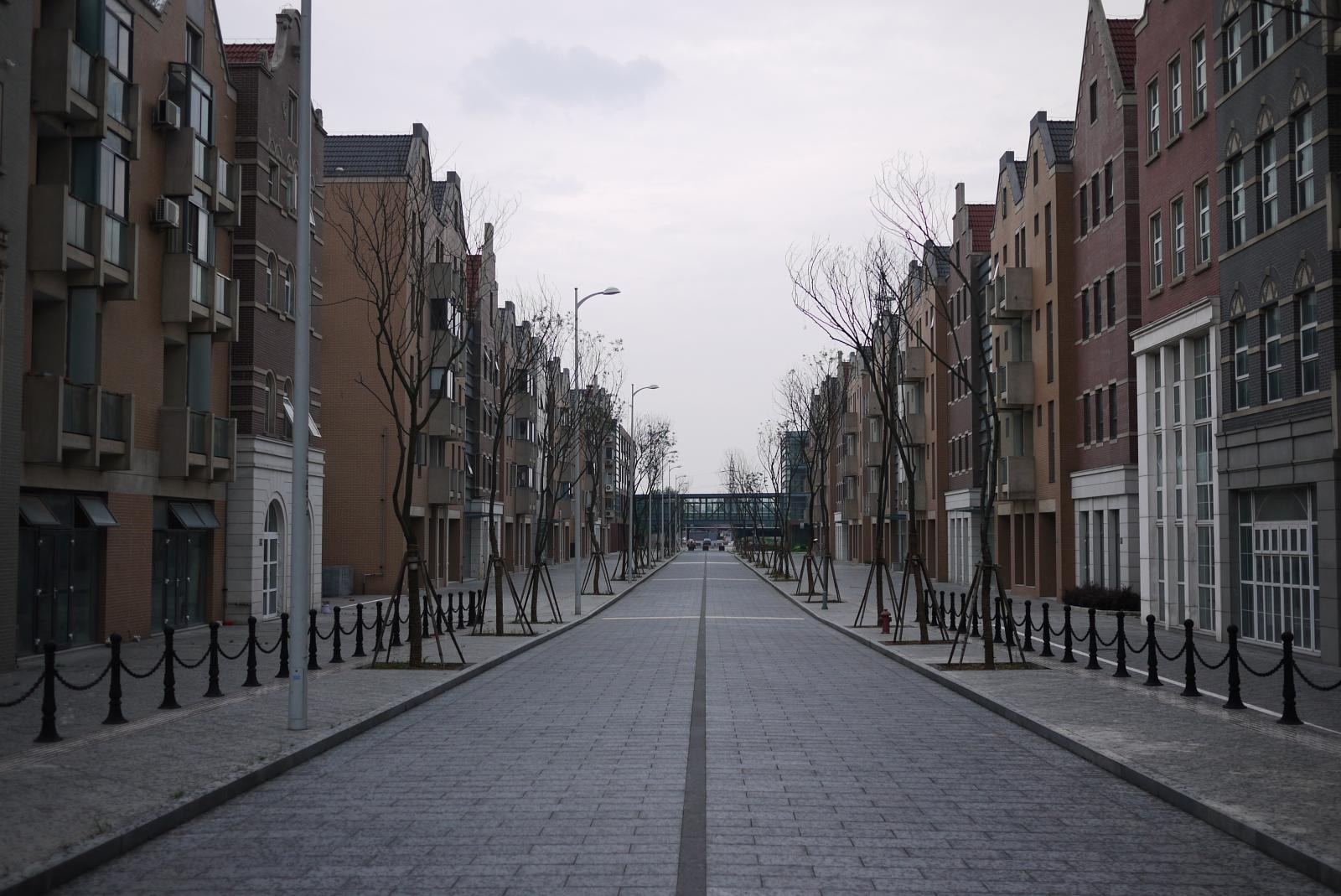 A Street In Holland Village, Shanghai, China